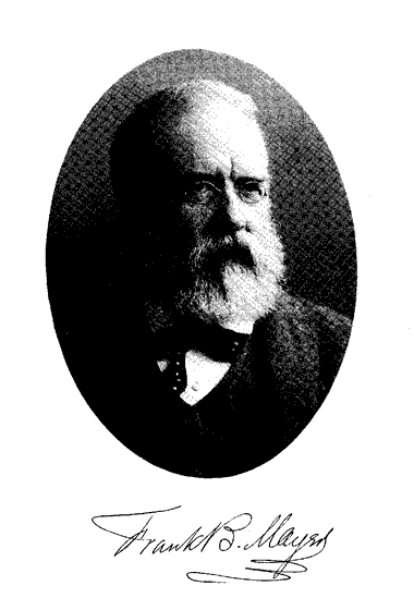 Genre artist Frank Blackwell Mayer